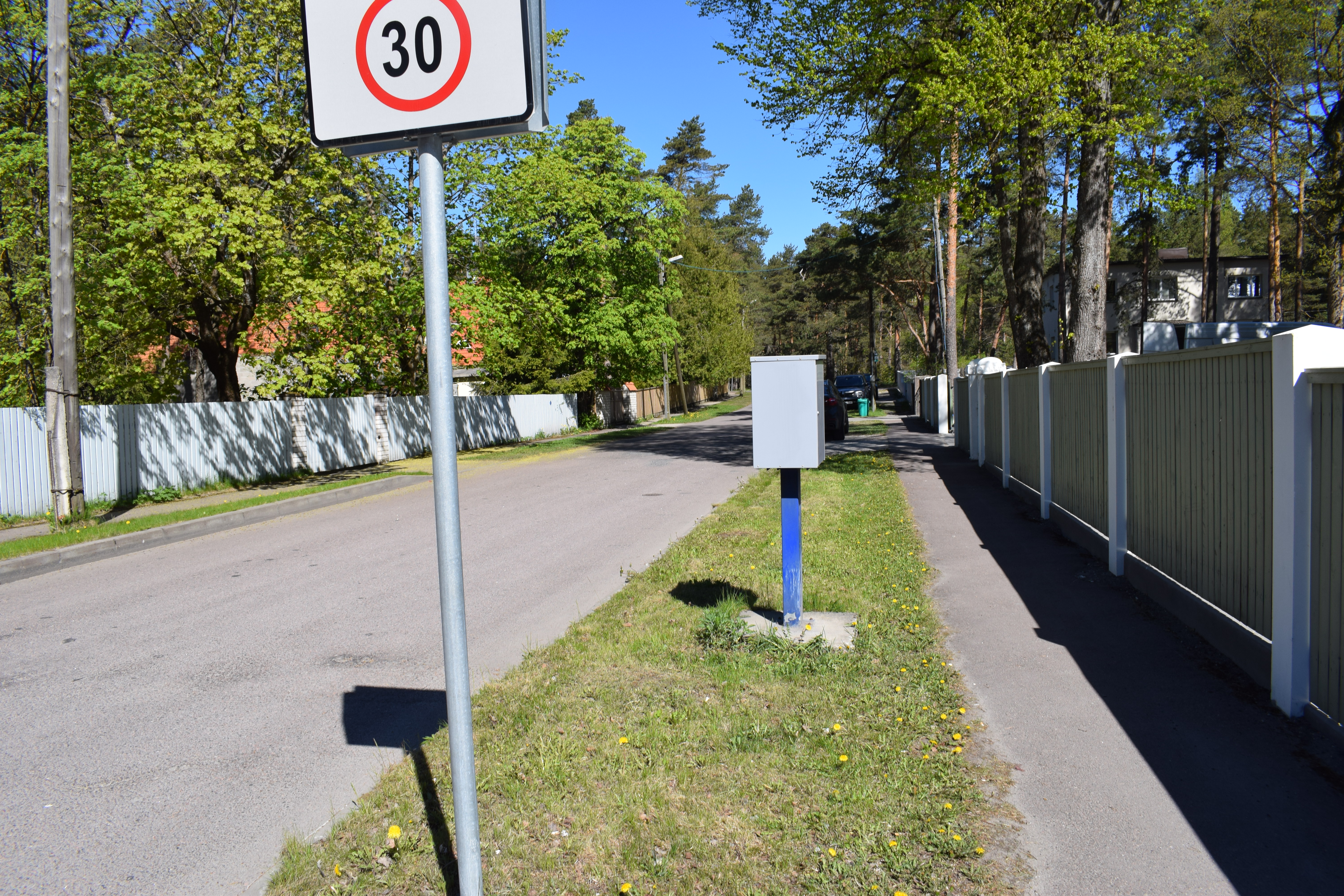 Kaare street